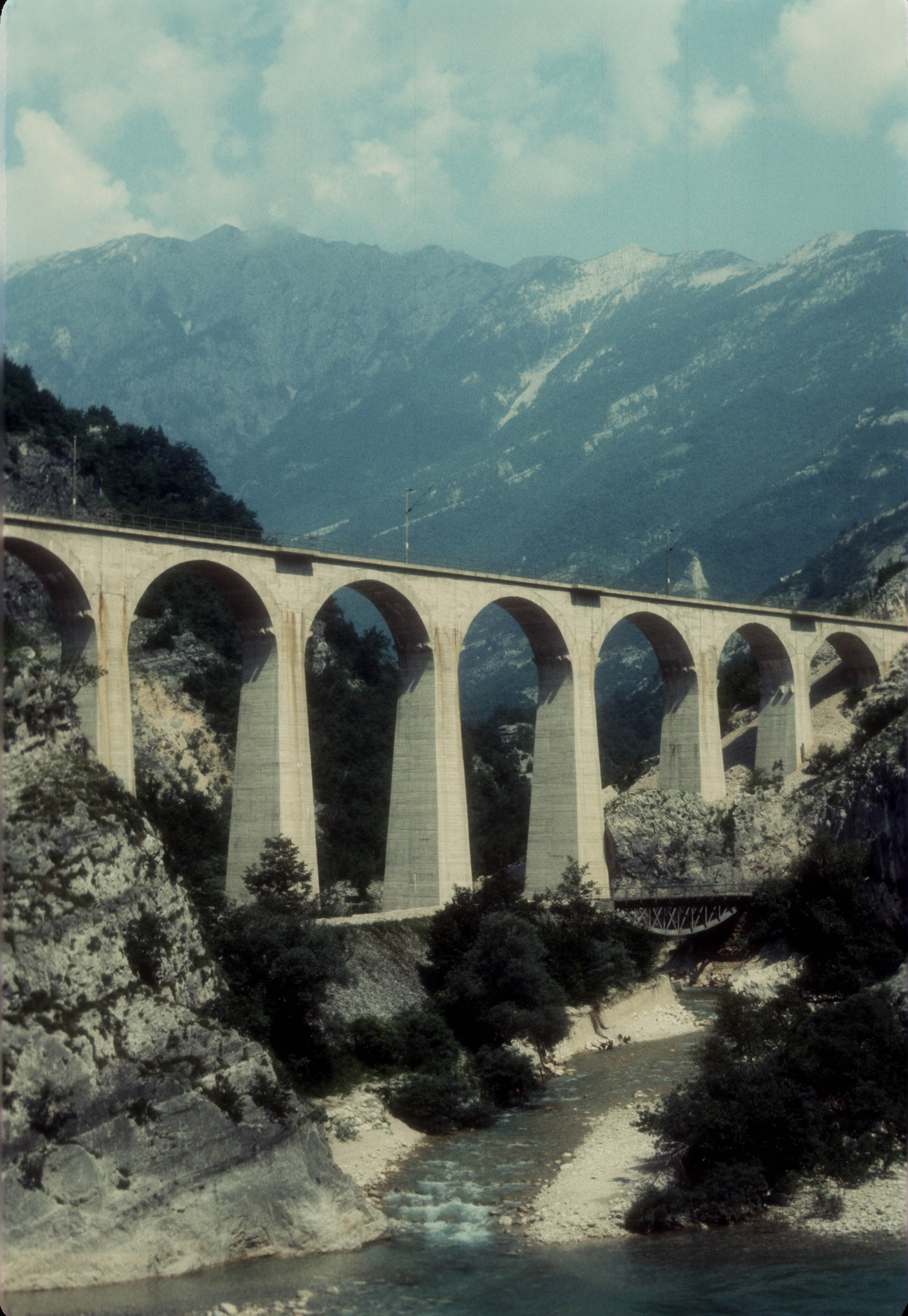 ANOTHER SET OF BRIDGES IN THE GORGE OF THE NERETVA RIVER BETWEEN SARAJEVO AND MOSTAR; railway bridge southeast of Grabovica village across Diva Grabovica river, just where it runs into Neretva river.